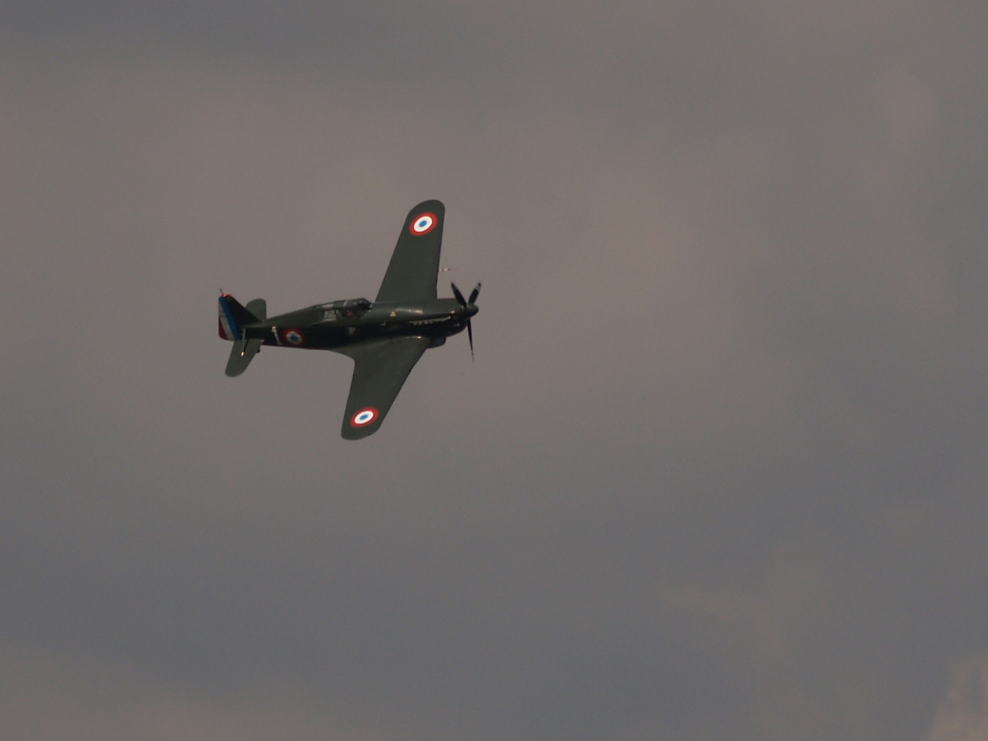 rennes airshow 2007: MS-406